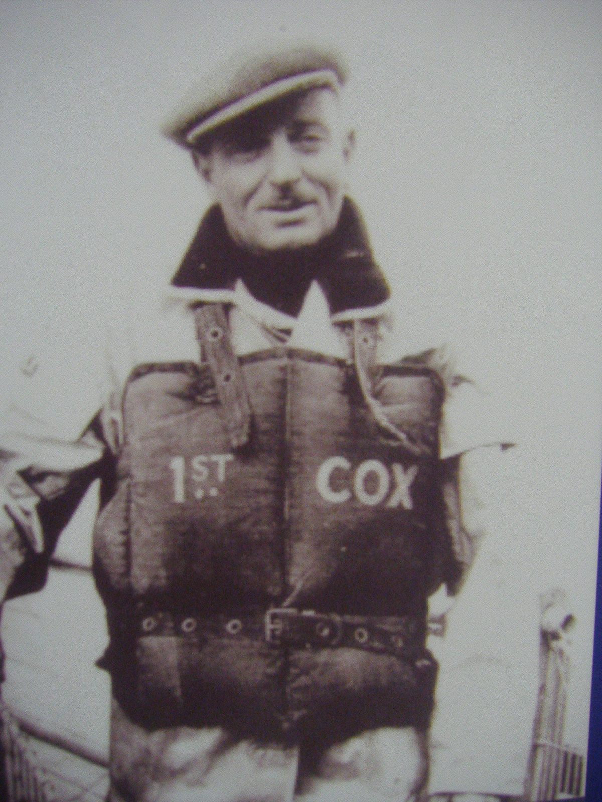 A Digital photograph of a photograph on an information board inside the Henry blogg museum of Henry T Davies, taken at the museum on the 14th February 2008 by Stavros1 (talk) 21:18, 16 February 2008 (UTC)